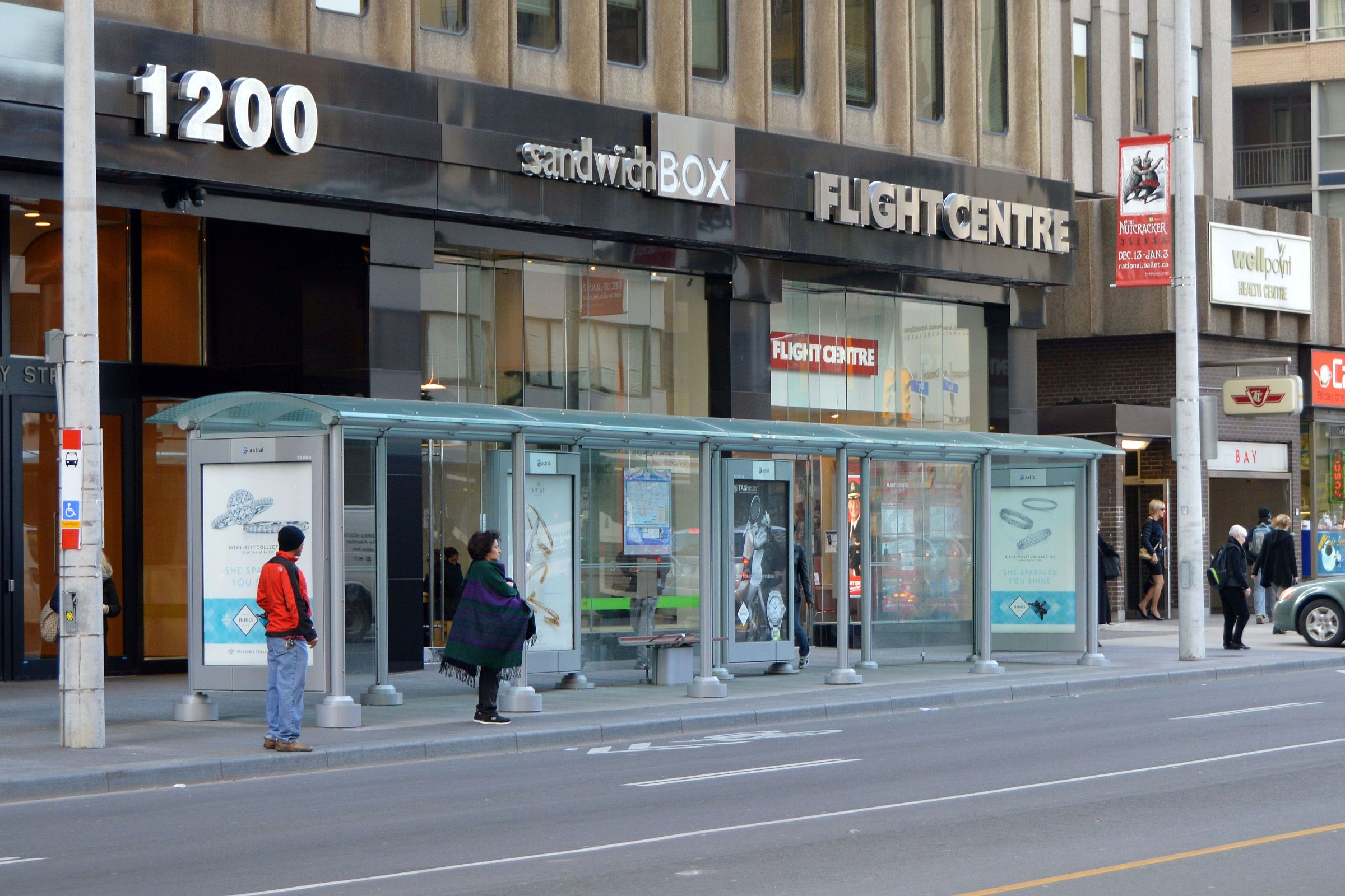 Long bus shelter outside Bay TTC subway station in Toronto